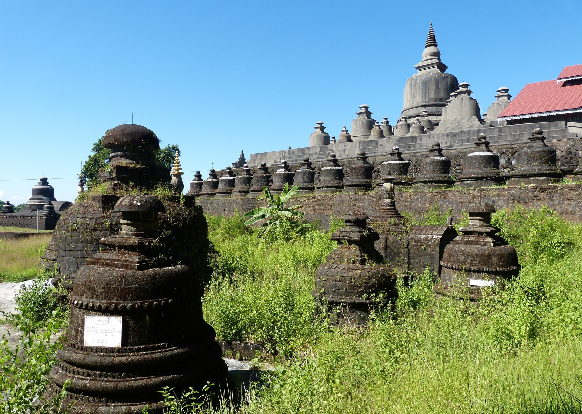 Mrauk U, Rakhine State, Myanmar